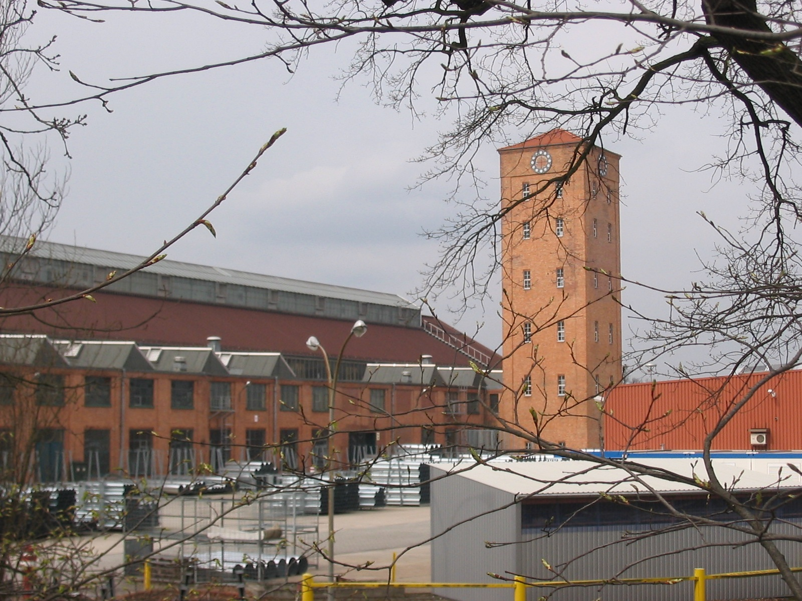 Former Siemens Metallwerk Gartenfeld (cable factory in Gartenfeld) in Siemensstadt, part of the borough Spandau in Berlin, Germany.